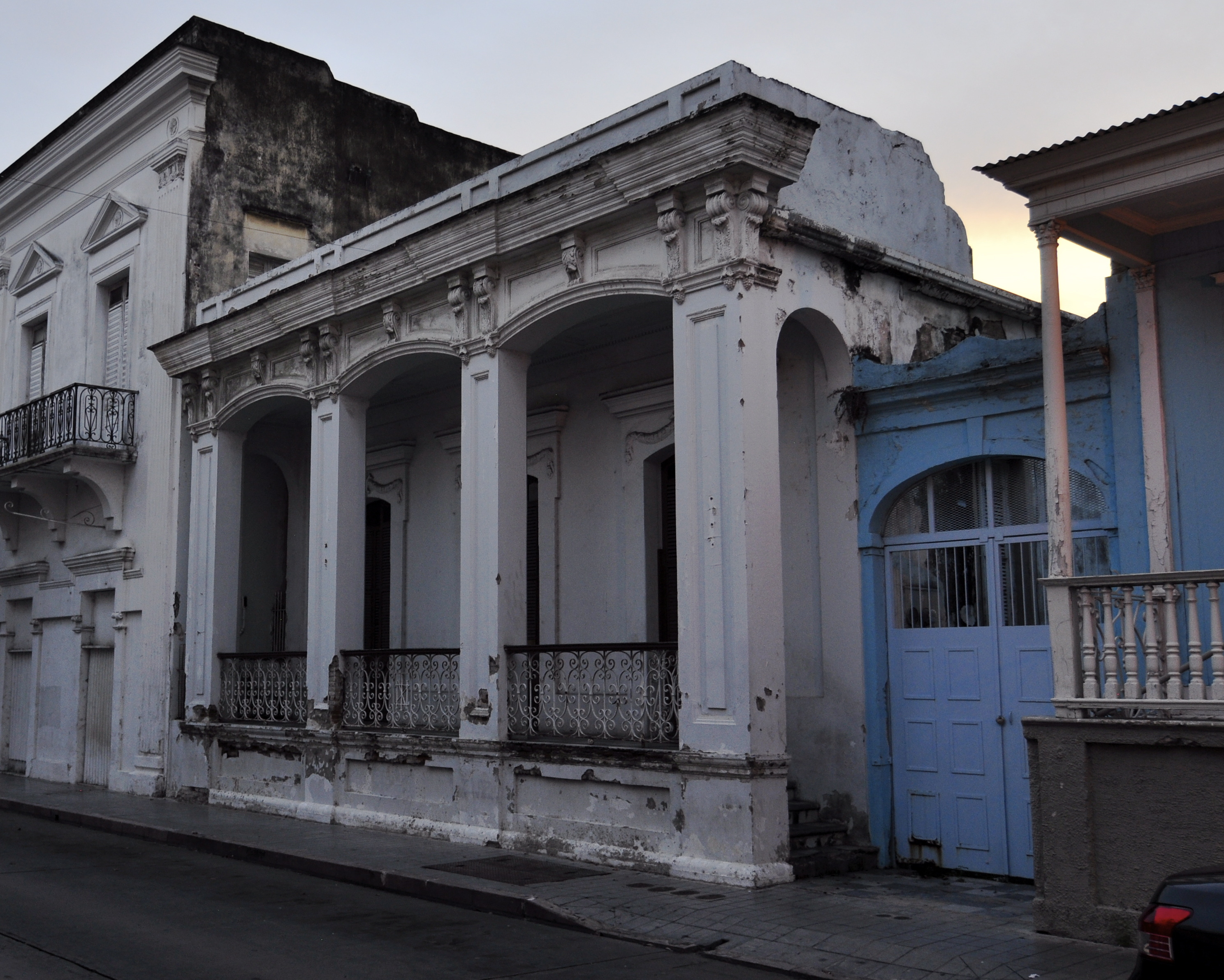 The historic Residencia Zaldo de Nebot (built 1895), located at Calle Marina No. 27 in Ponce, Puerto Rico, is listed on the U.S. National Register of Historic Places.